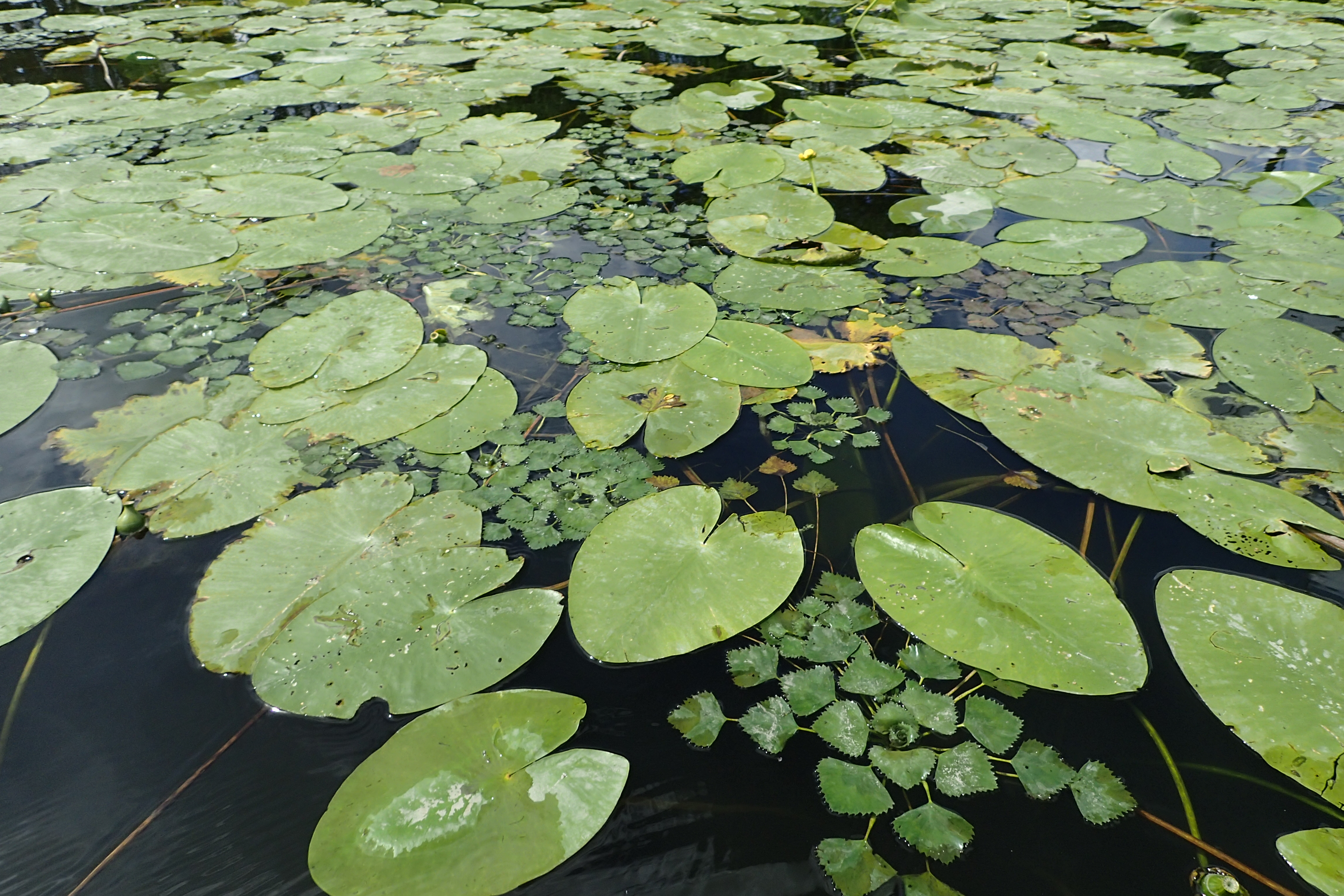 Trapa natans in Regalica (east arm of Oder river) and Obnica Północna (its side arm) near Szczecin Podjuchy, NW Poland